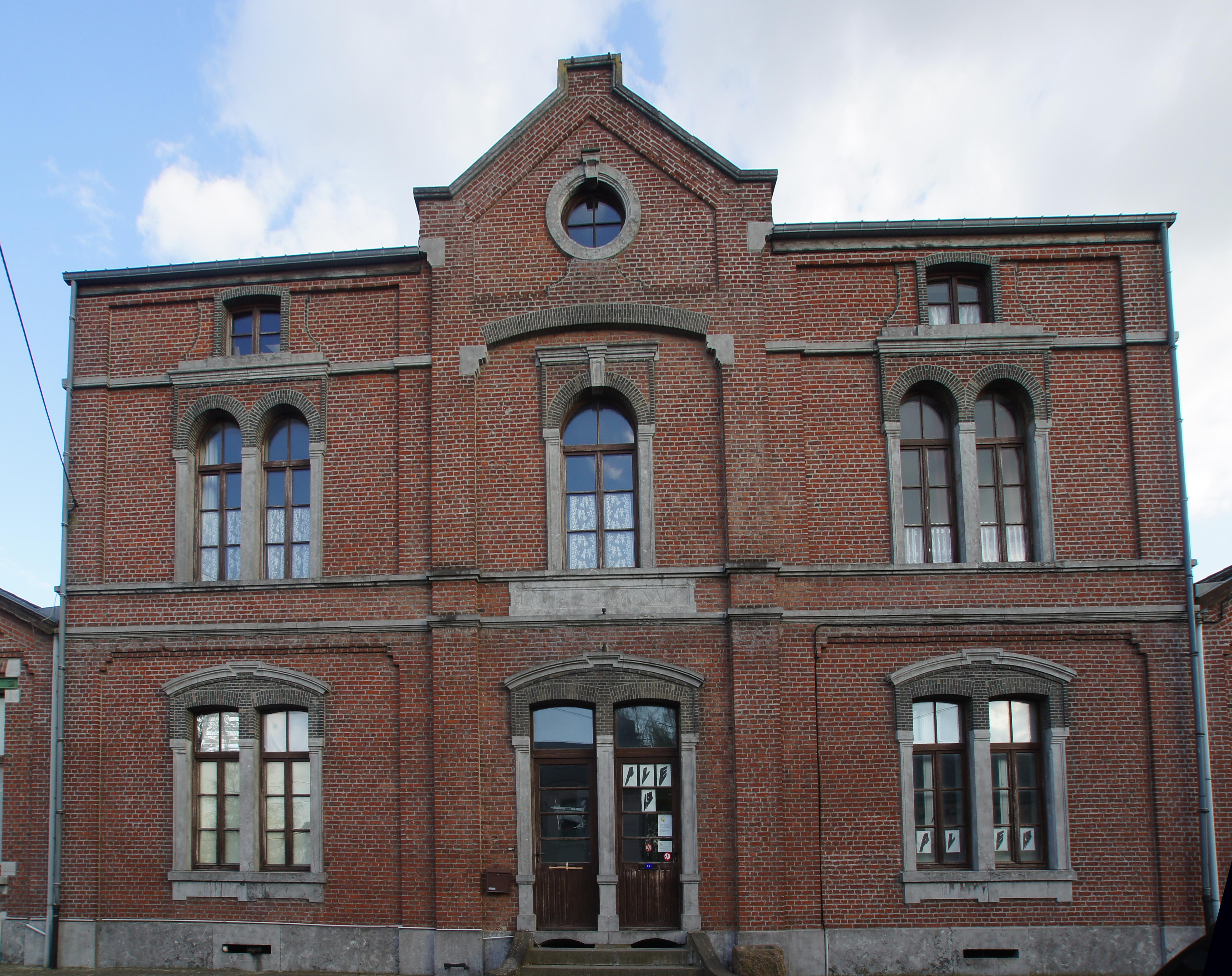 Villers-la-Ville (Sart-Dames-Avelines), Belgium: Former town hall